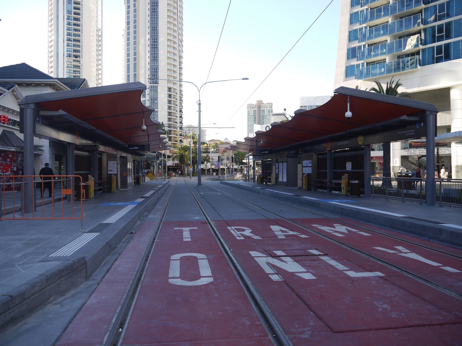 Gold Coast Light Rail - Cavill Avenue Station.jpg